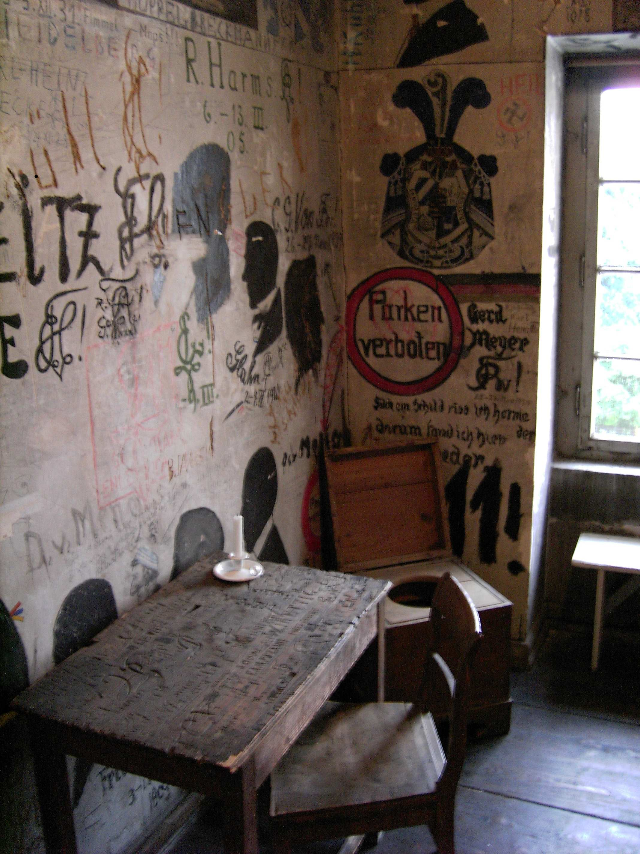 Description: Göttingen, University Karzer (arrest cell for students), in the Aula at Wilhelmsplatz. The graffiti on the wall states that the writer was incarcerated for pulling down a "no parking" sign. Author: Thangmar, photo taken myself, 06.08.2005 Licence